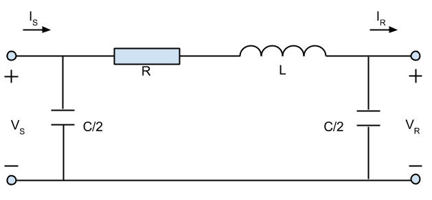 Equivalent circuit of a medium length of power line.